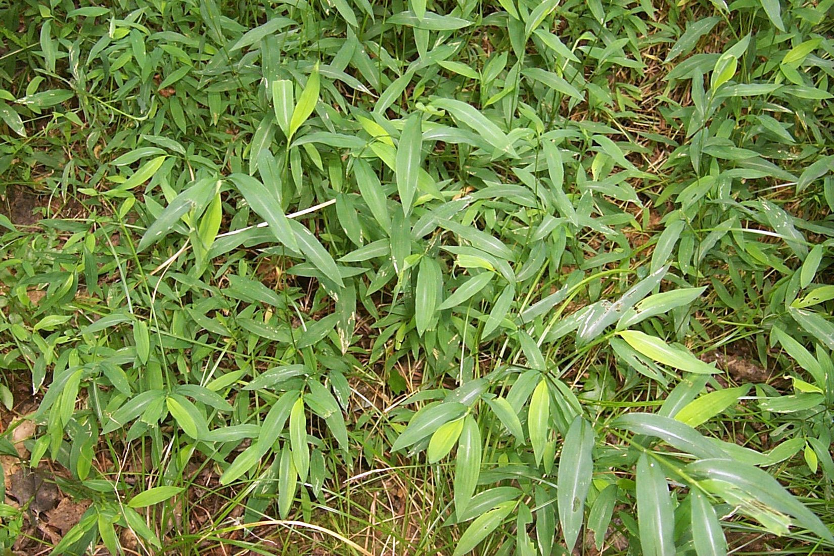 Microstegium vimineum (Trin.) A. Camus - Japanese stiltgrass, Nepalese browntop